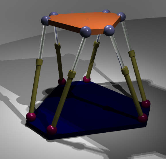 Hexapod structure schema personal picture: made with Hamapatch and Povray software